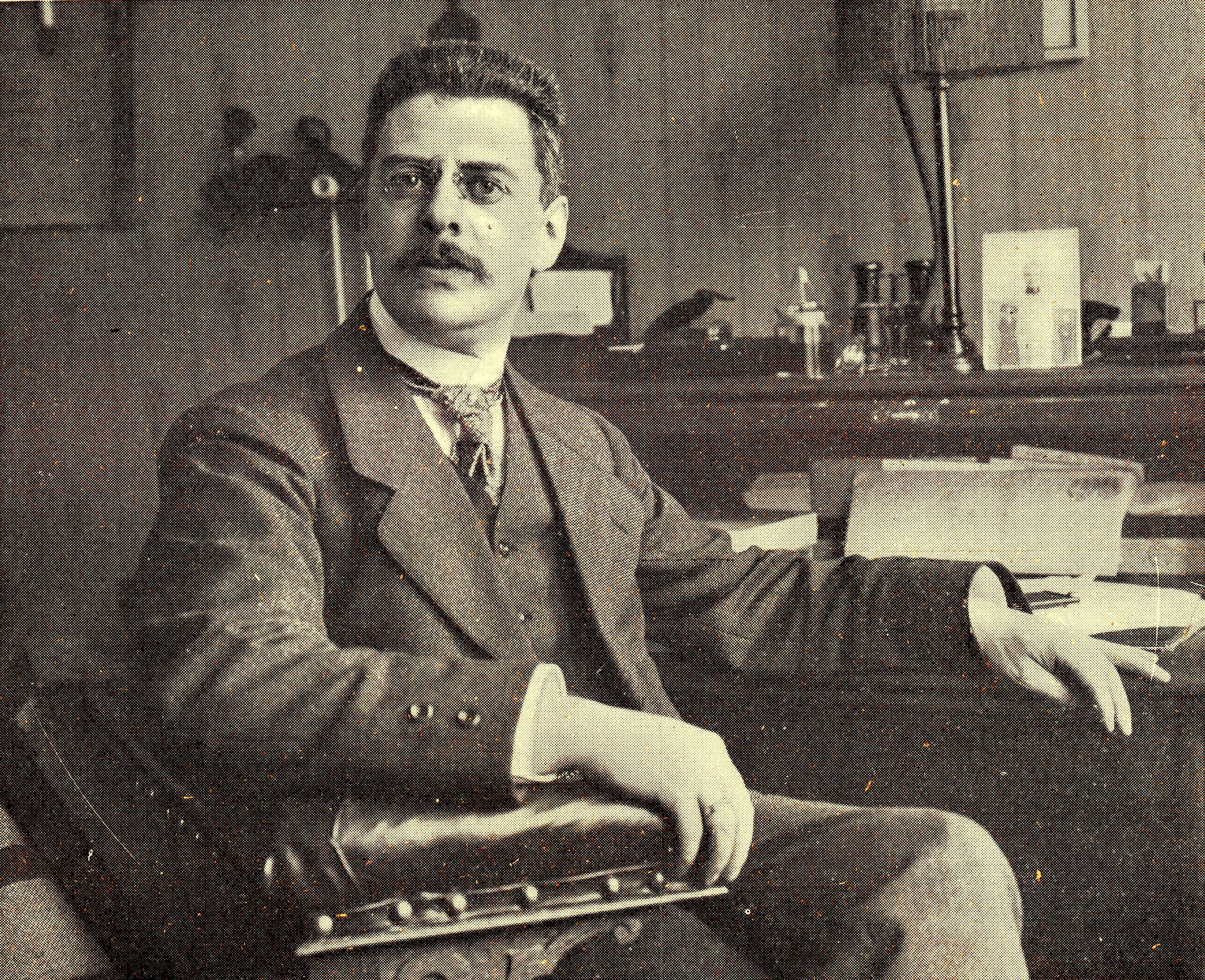 A.A. Pulle